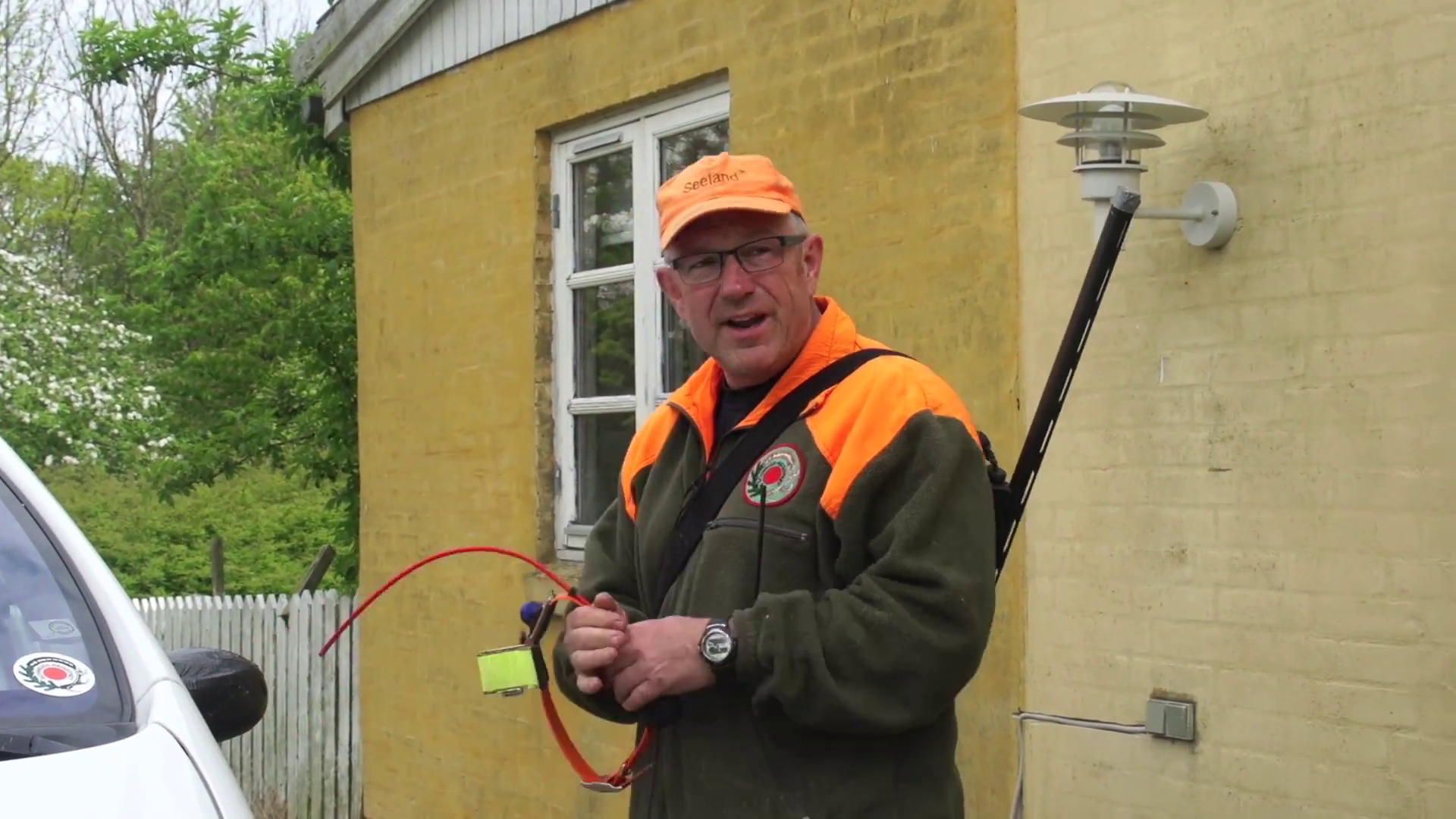 Dog handler of the "Schweiss Registret" (see the symbol on his jacket), an organization of hunters dedicated to tracking down dead or injured game animals, with shouldered shotgun and a GPS tracking device for dogs